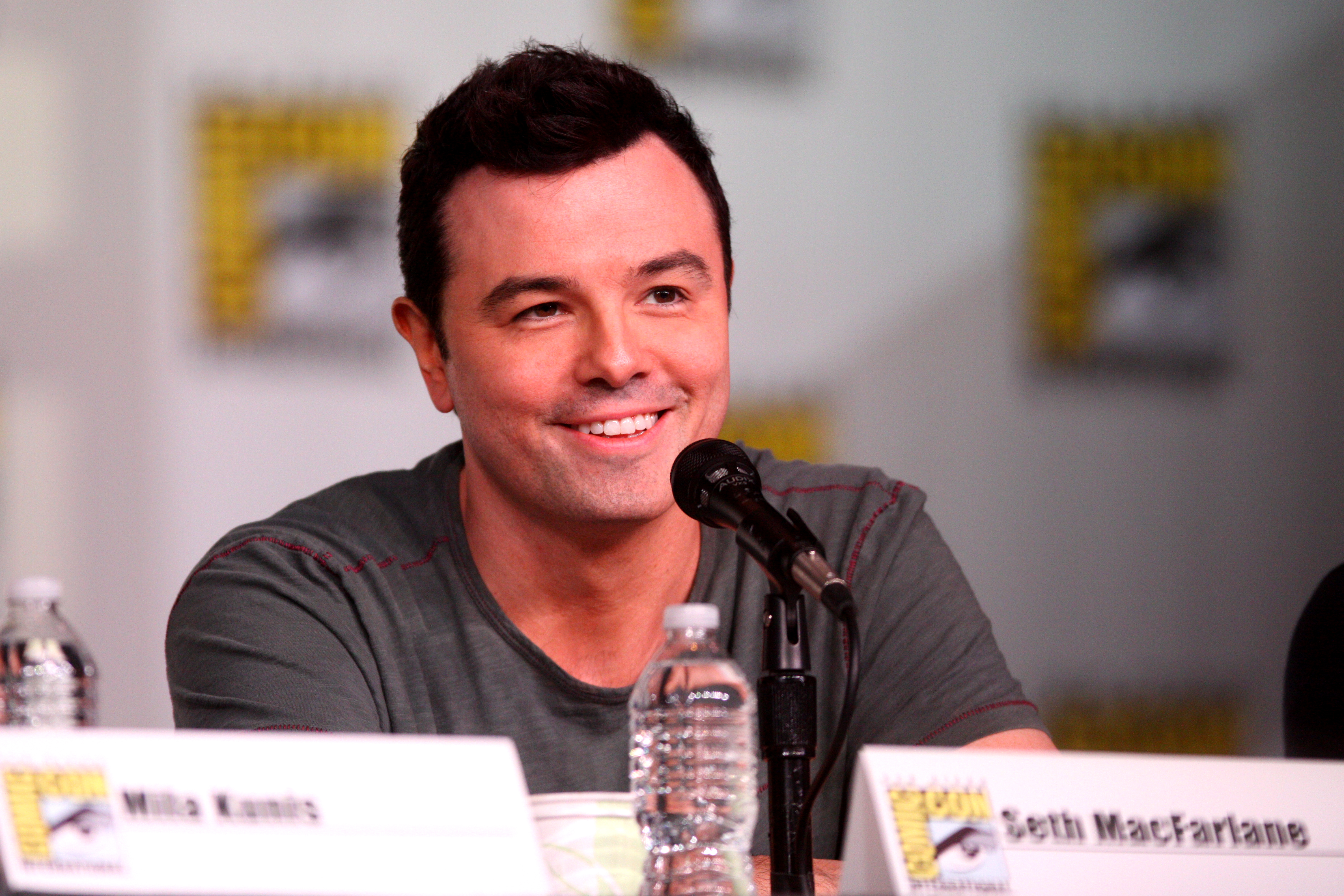 Seth MacFarlane speaking at the 2012 San Diego Comic-Con International in San Diego, California.